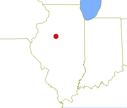 Location map of Peoria, Illinois